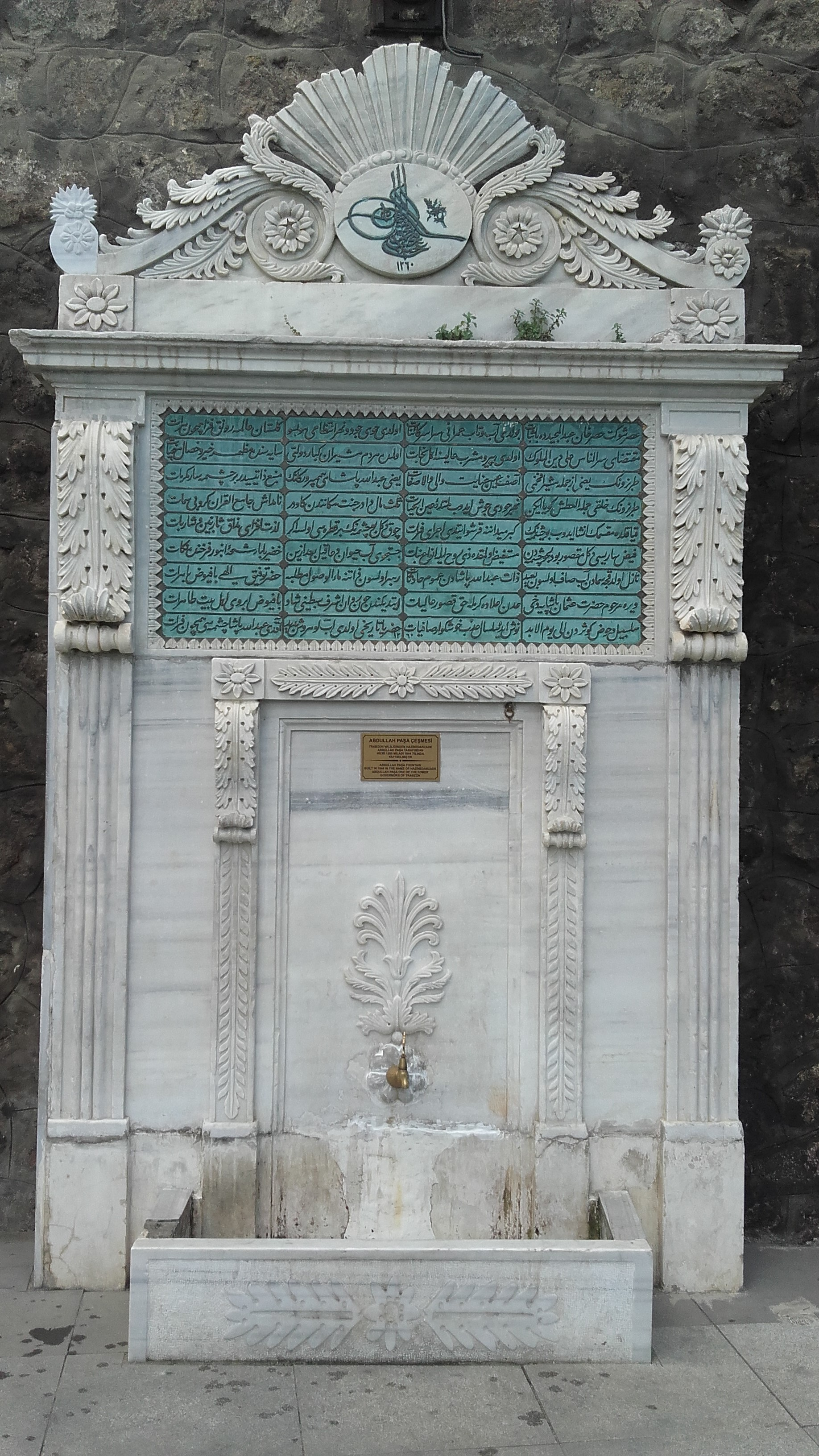 Image of the Abdullah Paşa fountain that is located in Trabzon, Turkey.